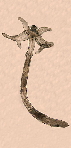 Lernaea cyprinacea